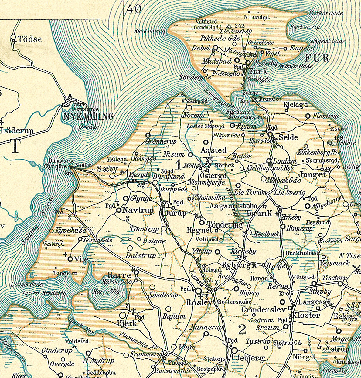 Map of Harre Herred in the northwestern part of Viborg County in Denmark